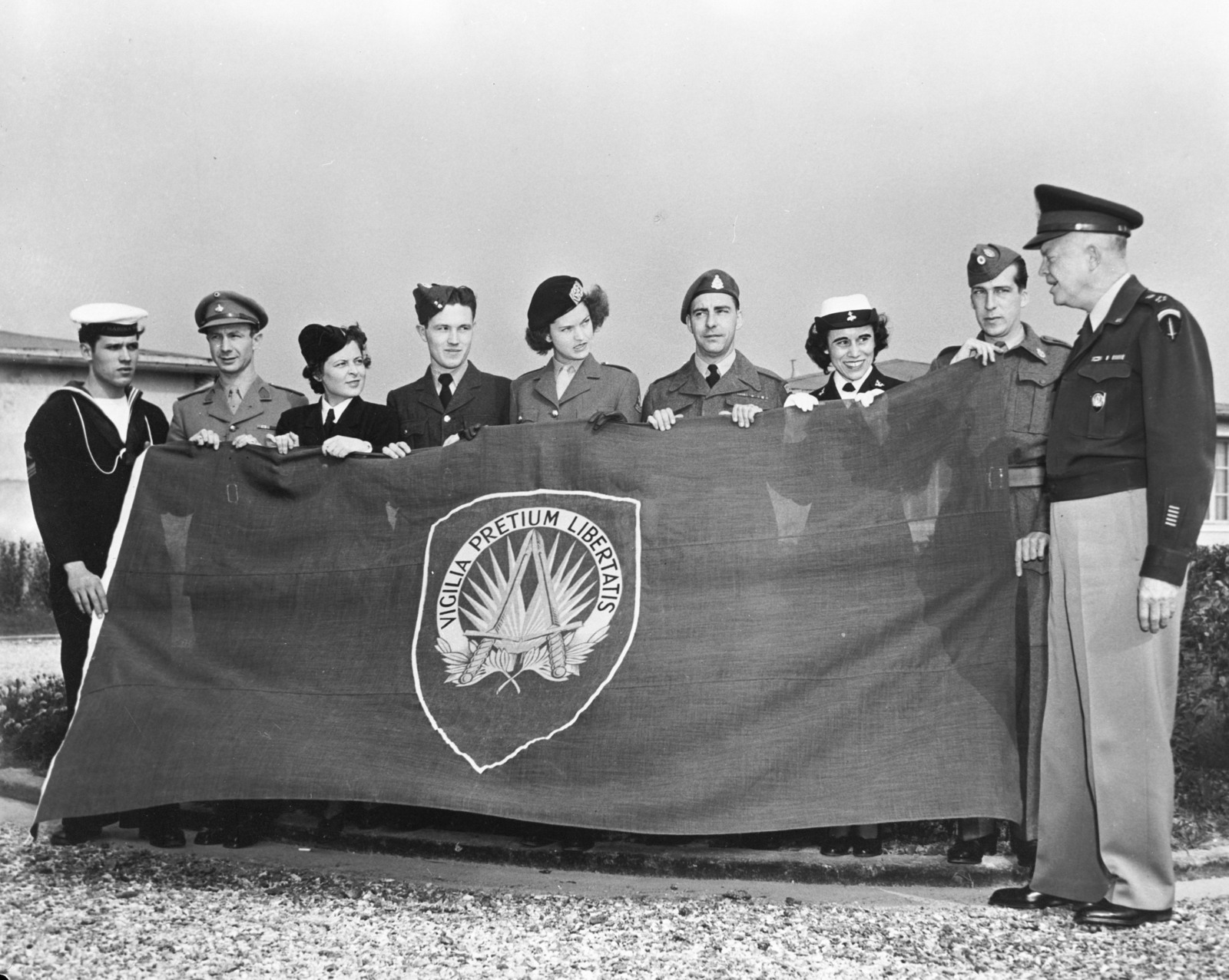 U.S. Army photo released to international press pool, showing Gen. Dwight Eisenhower in front of the first NATO flag, October 8, 1951.